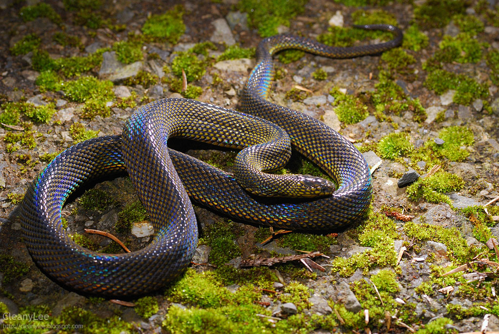 Achalinus formosanus formosanus, a Colubridae snake.